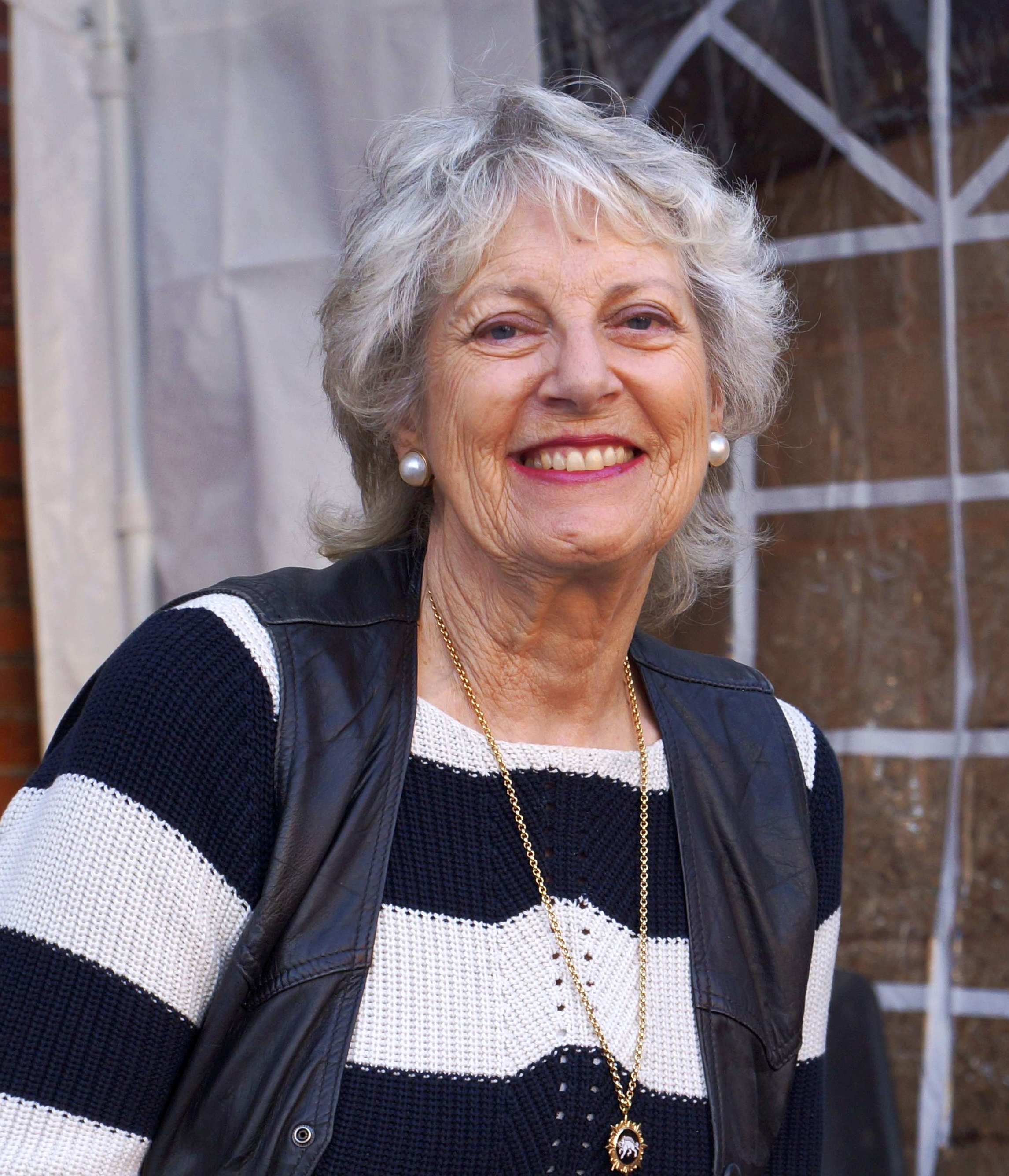 This picture is of Annette J. Carson